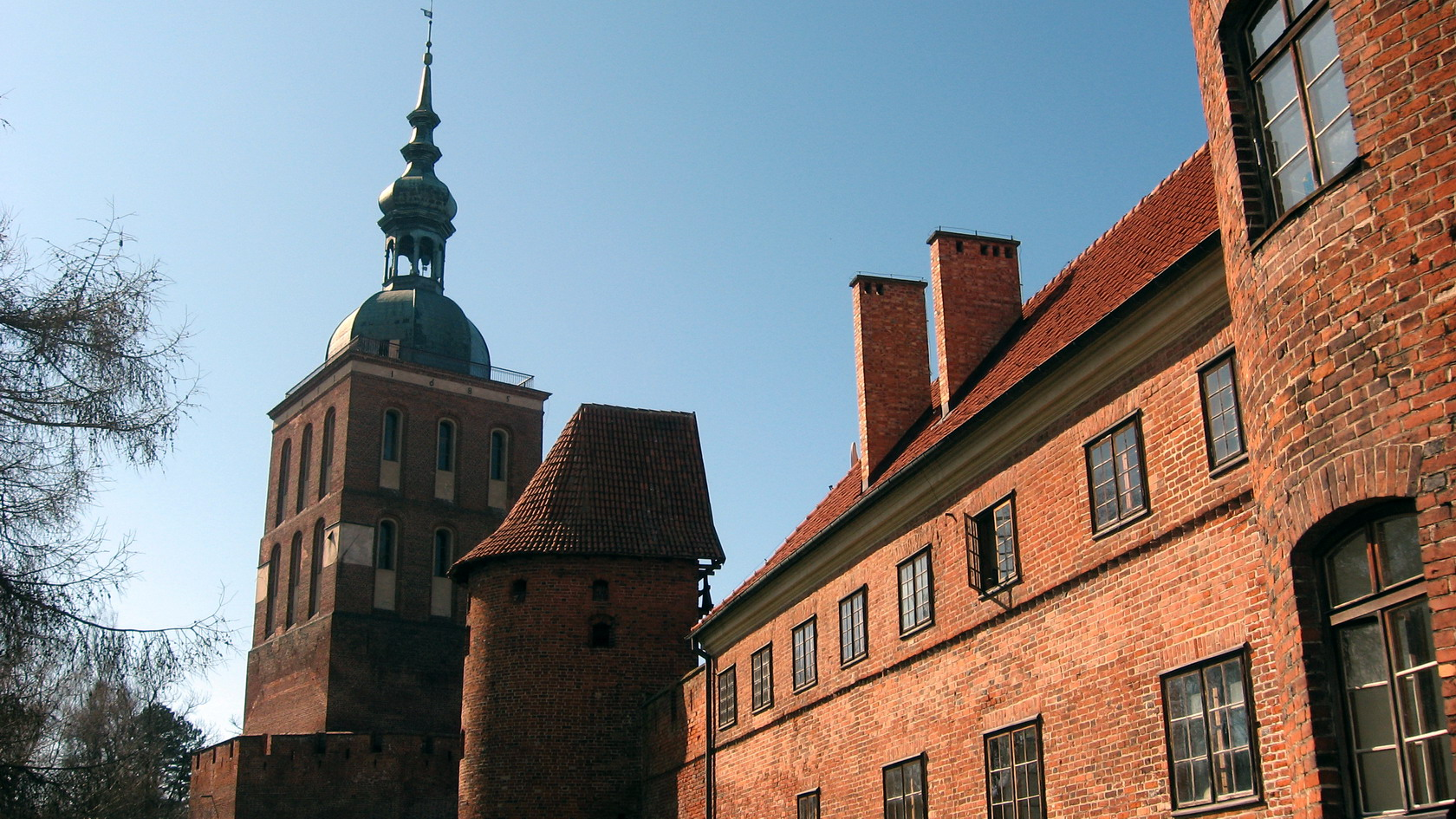 View of cathedral hill from the south